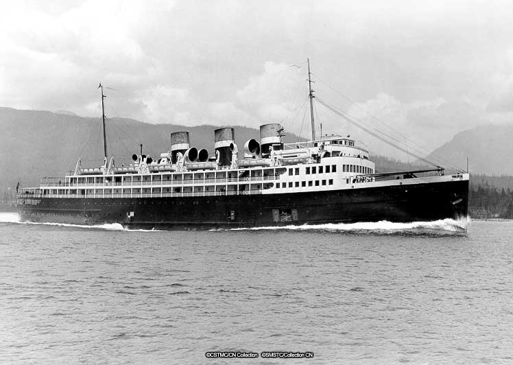 This photo of CNSS Prince David is from the Canada Science and Technology Museum Corporation's web site "CN images of Canada Gallery" and has been posted with permission. Passenger ship CNSS Prince David Vancouver, British Columbia, Canada 17 Aug. 1930 Photographer: unknown Subject: Passenger ships / Canadian National Steamship Company, Limited Image No.: CN001685 CSTMC/CN Collection